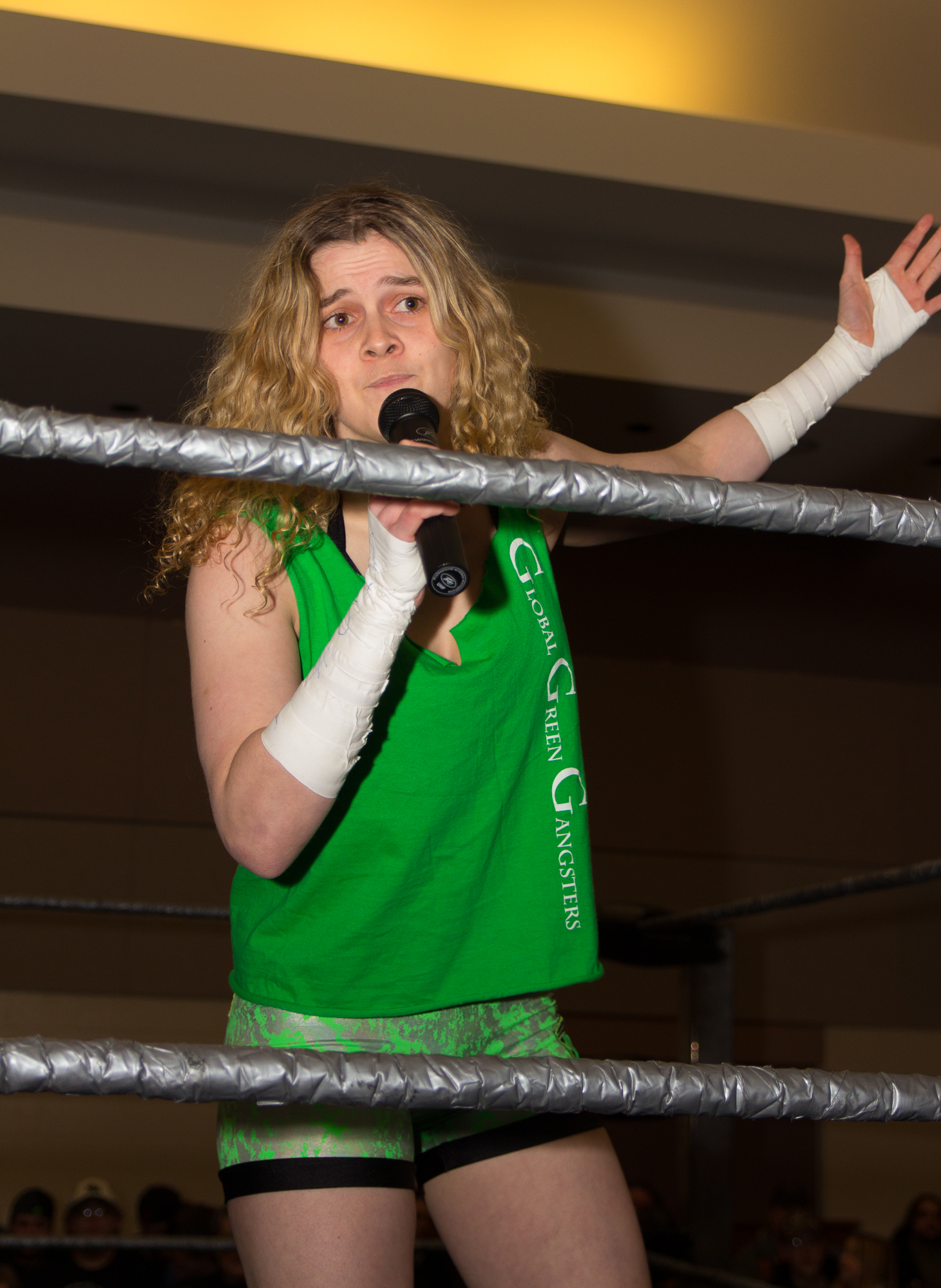 Kellie Skater appears at a CPW Friday Night show on 22 March 2013.